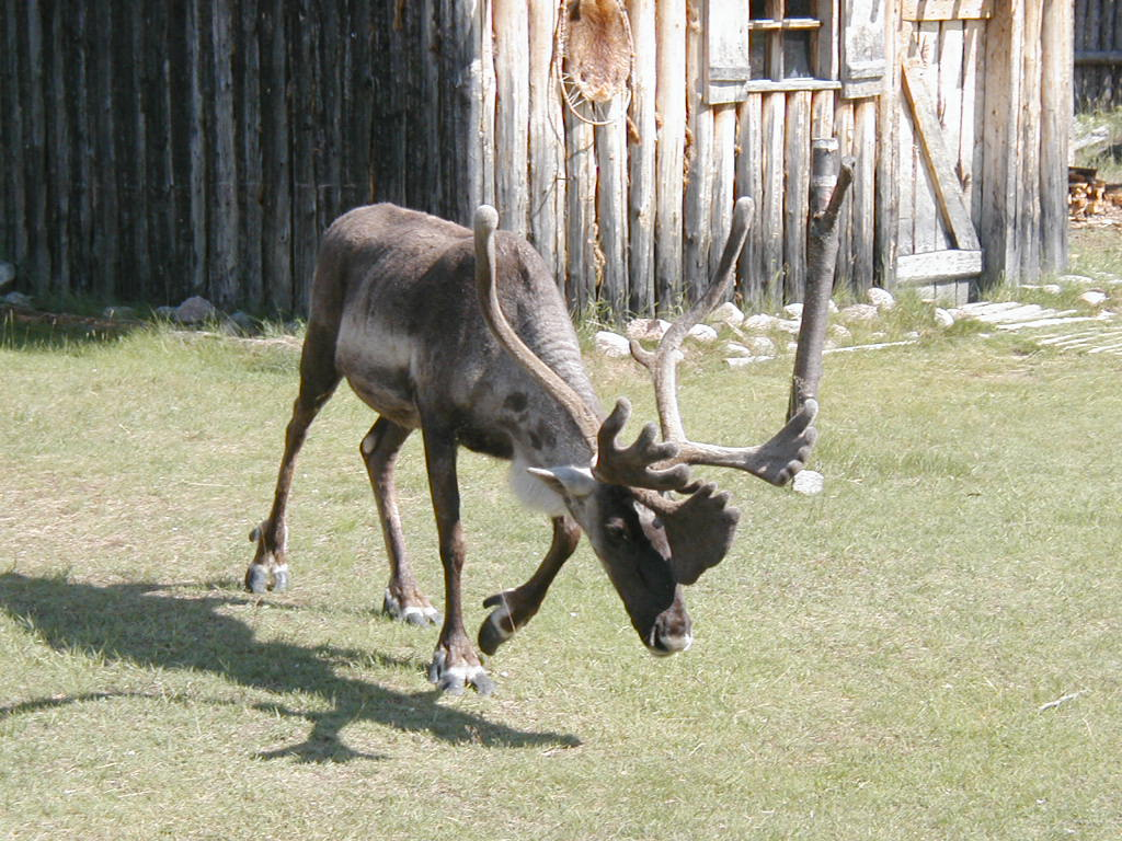 Reindeer